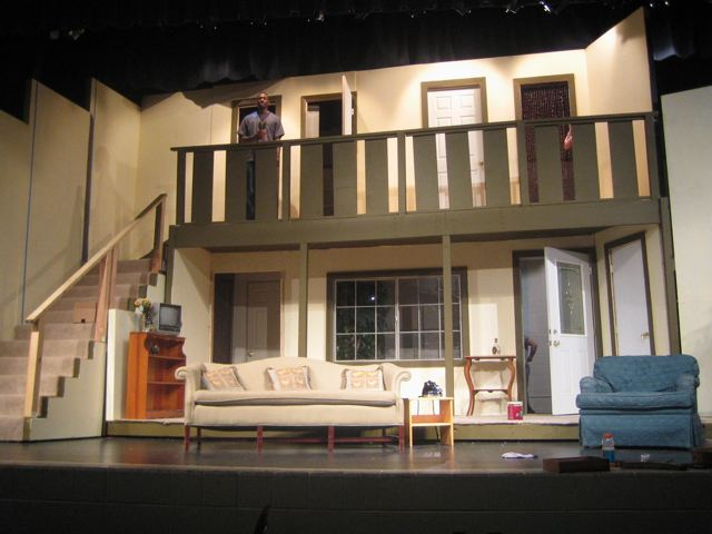 Photo of the front of the set of the play Noises Off